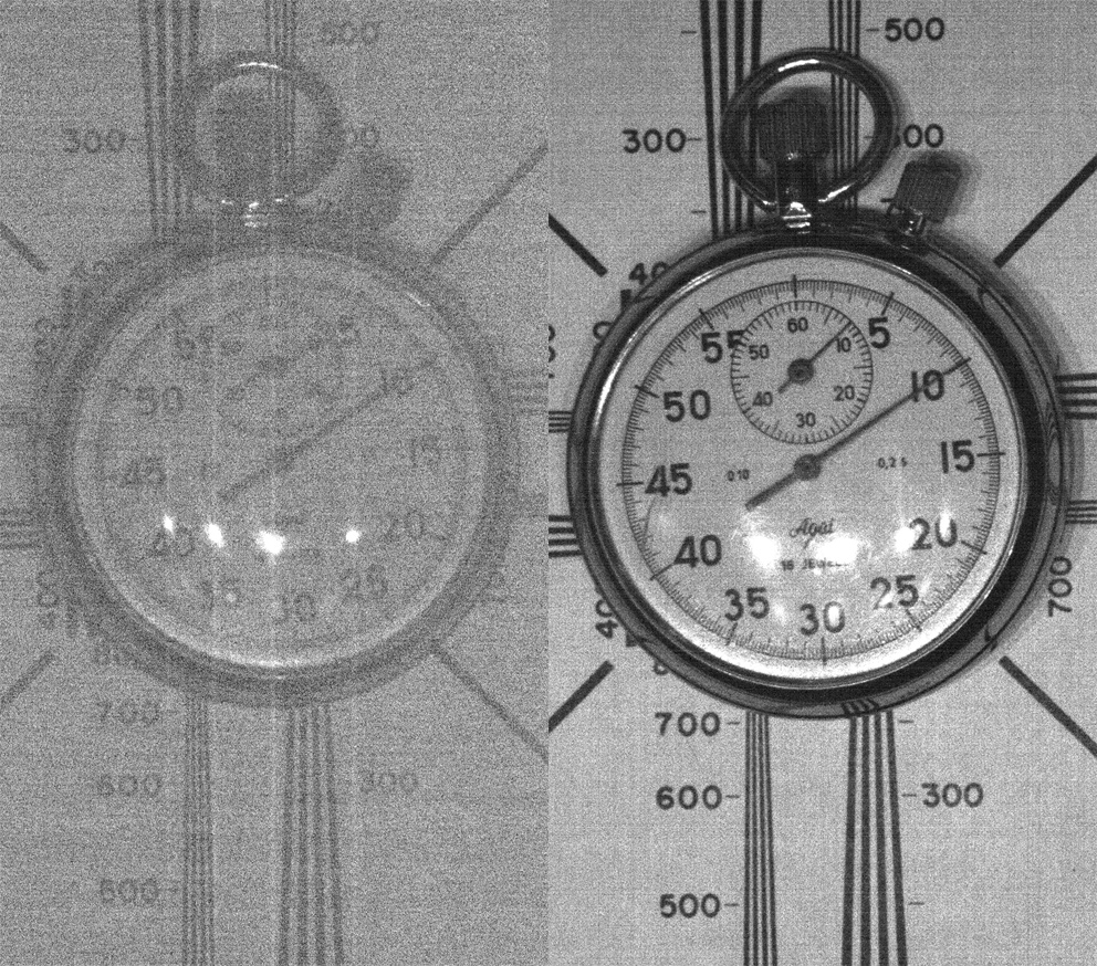 The lower figure shows a com­parison of a scientific grade CCD and the new pco.sCMOS image sensor under similar weak illumi­nation conditions. This demonstrates the superior­ity of pco.sCMOS over CCD with regards to read out noise and dynamic, without any smear (the vertical lines in the CCD image).